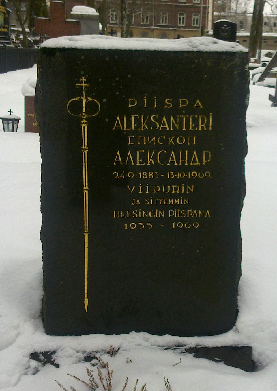 Piispa Aleksanterin hautakivi Lapinlahdessa